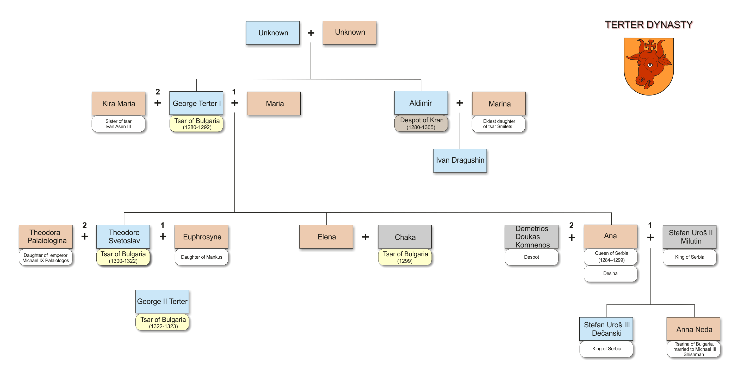 Genealogical tree of the Terter dynasty